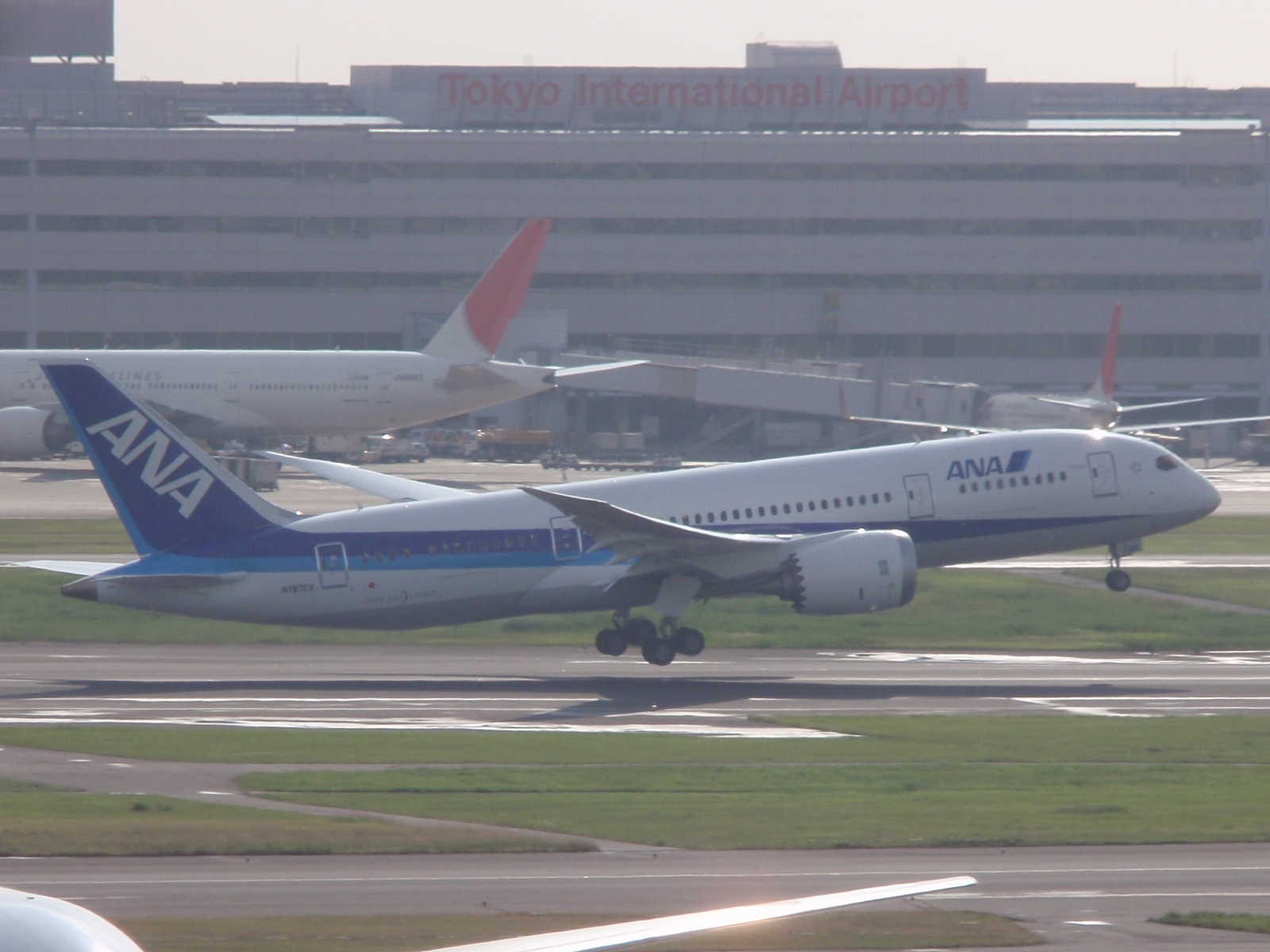 Boeing/All Nippon Airways Boeing787-8(N787EX) at Tokyo Int'l Airport